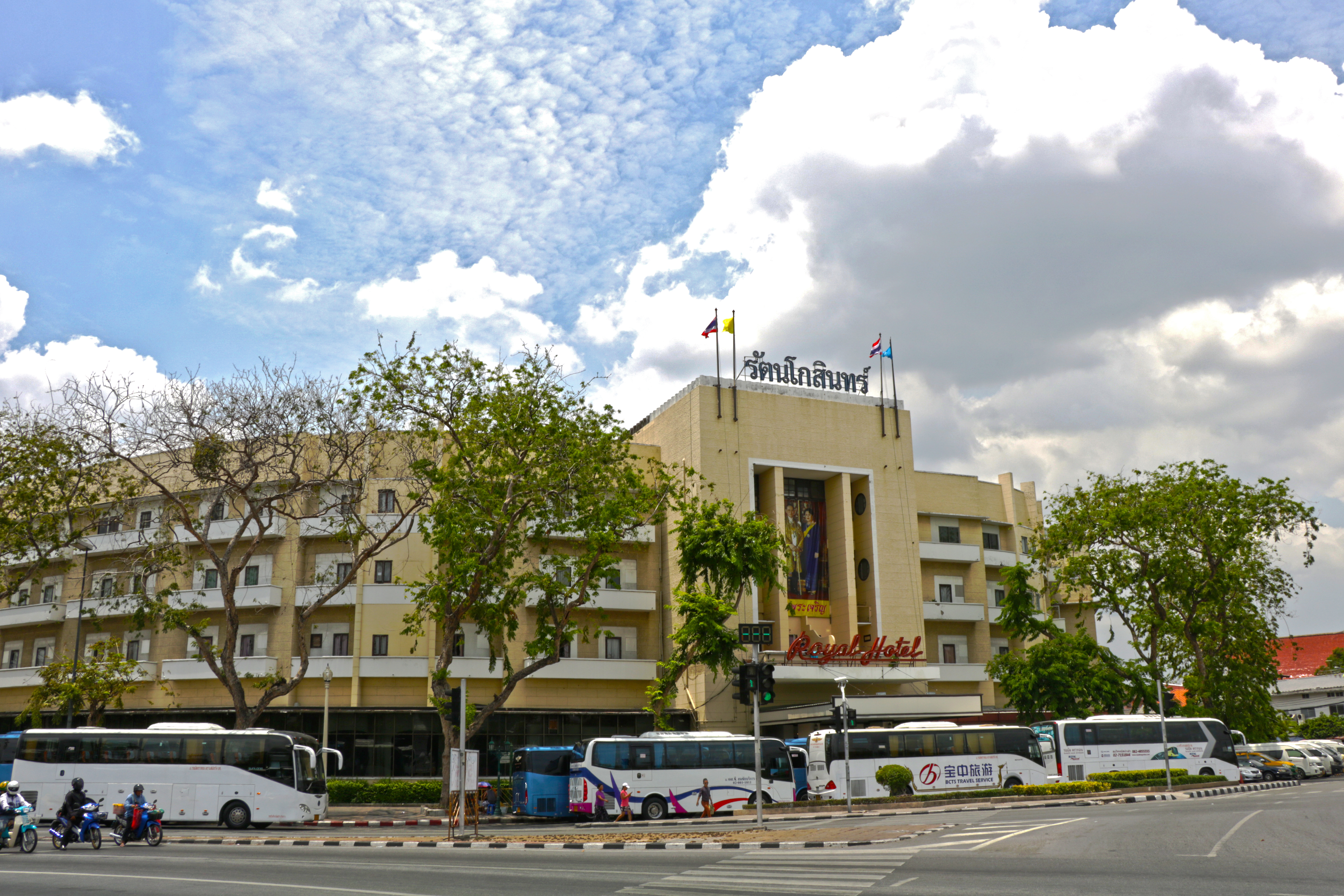 Royal Rattanakosin Hotel, Bangkok